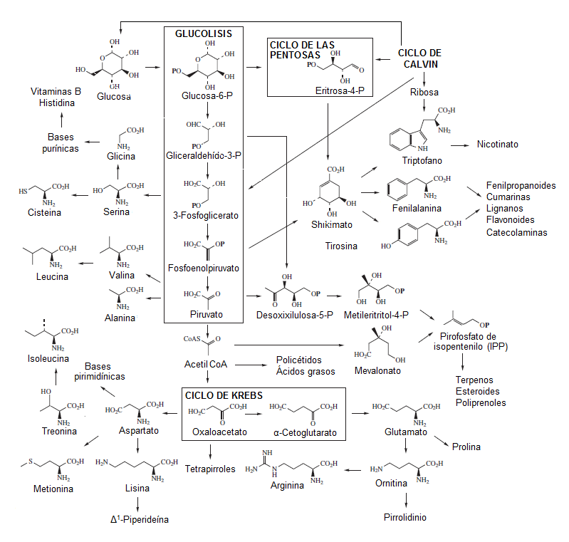 Secondary metabolites map